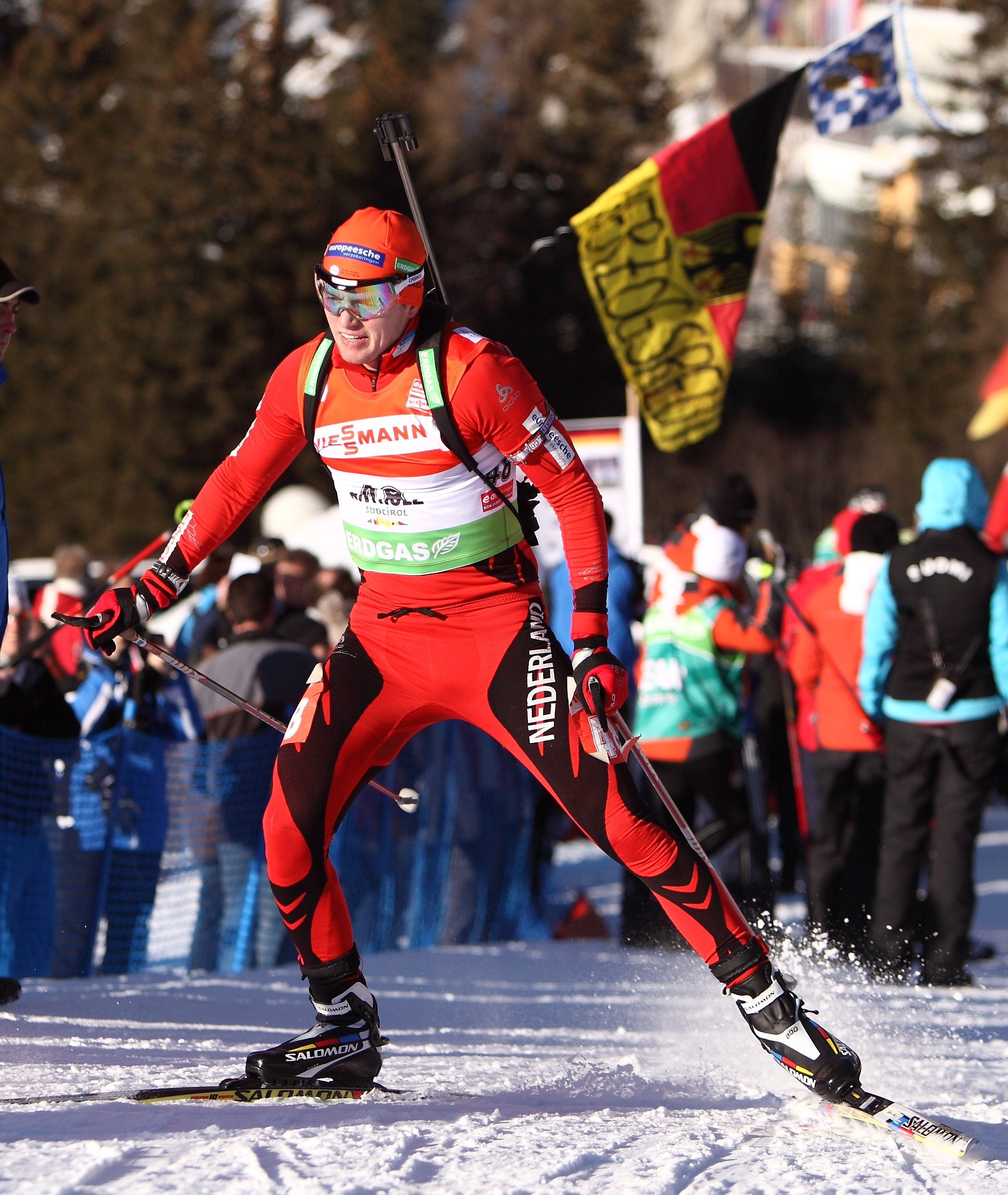 Herbert Cool